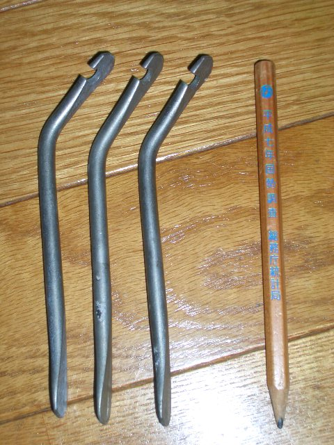 Photo by B.K. Bullock. Snap of three bicycle tyre levers plus pencil for size comparison.